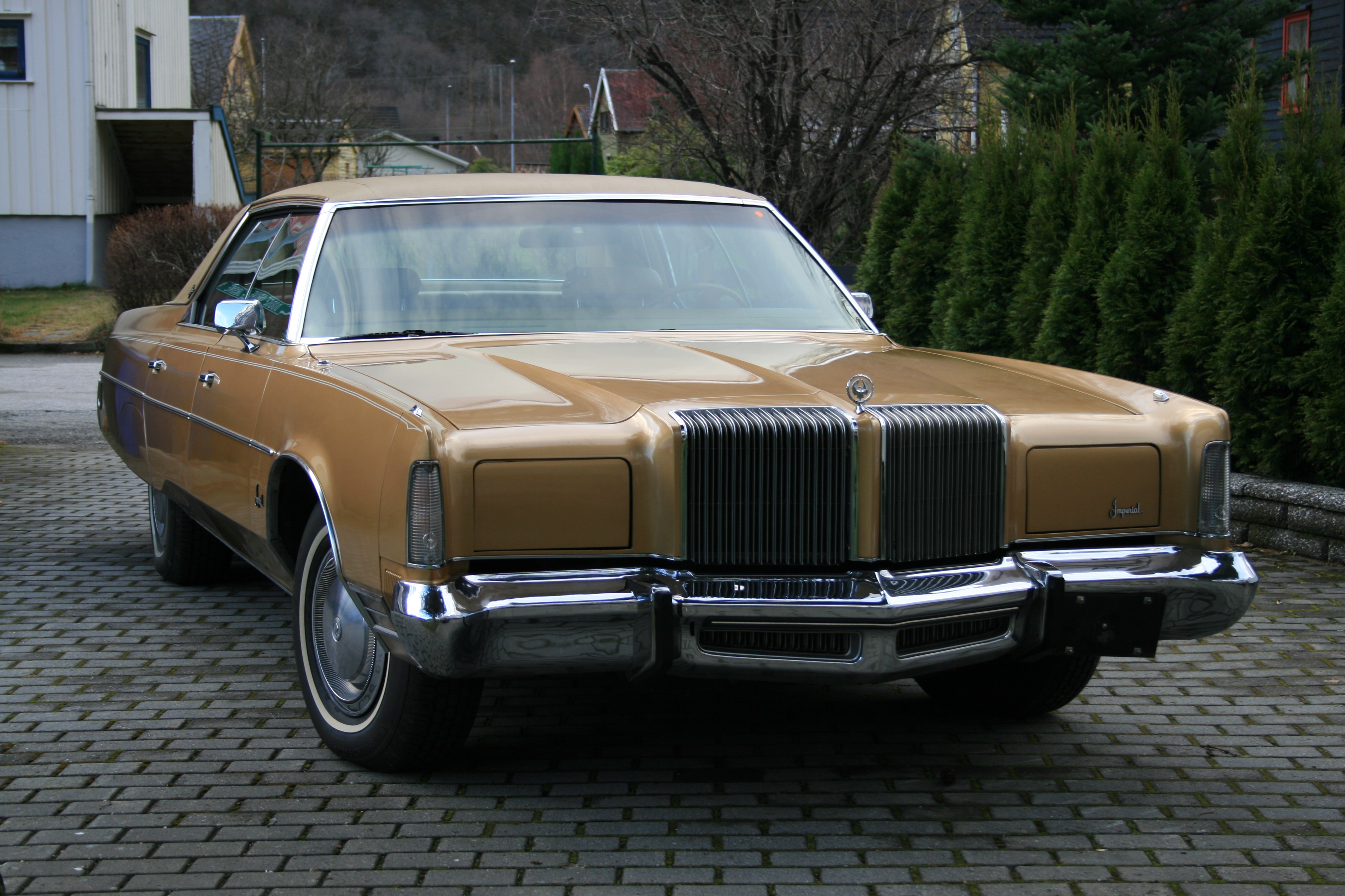 A 1975 Imperial LeBaron 4-door